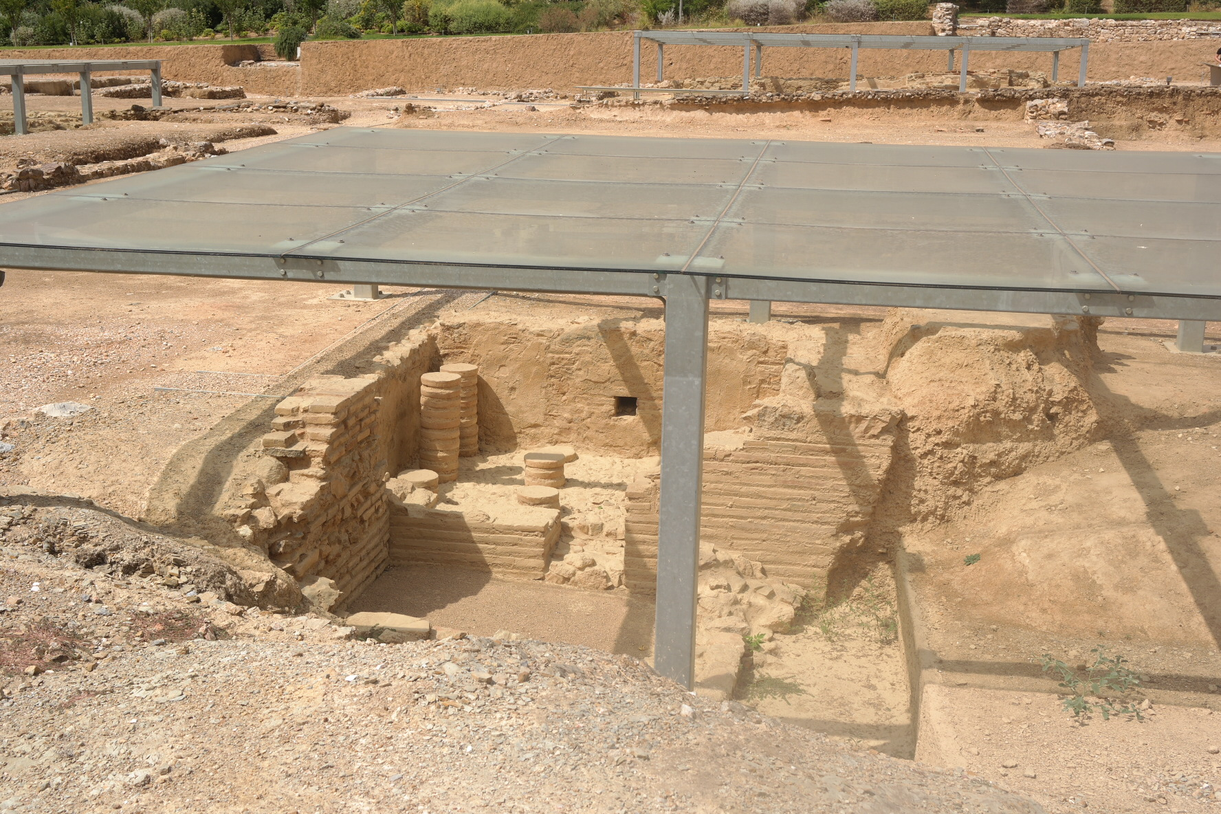 Aristotle [384 – 322 BC] founded his Peripatetic School in 335 BC in a green area between Rivers Iridanos and Ilissos, outside the city walls, off Diocharous Gate, next to a copse where the temples of Lykeios Apollo and Hercules Pagratis used to be.